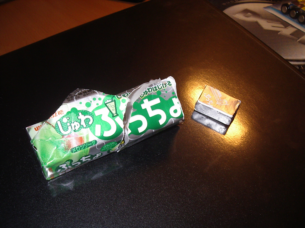 Image of a melon cider flavour Puccho.